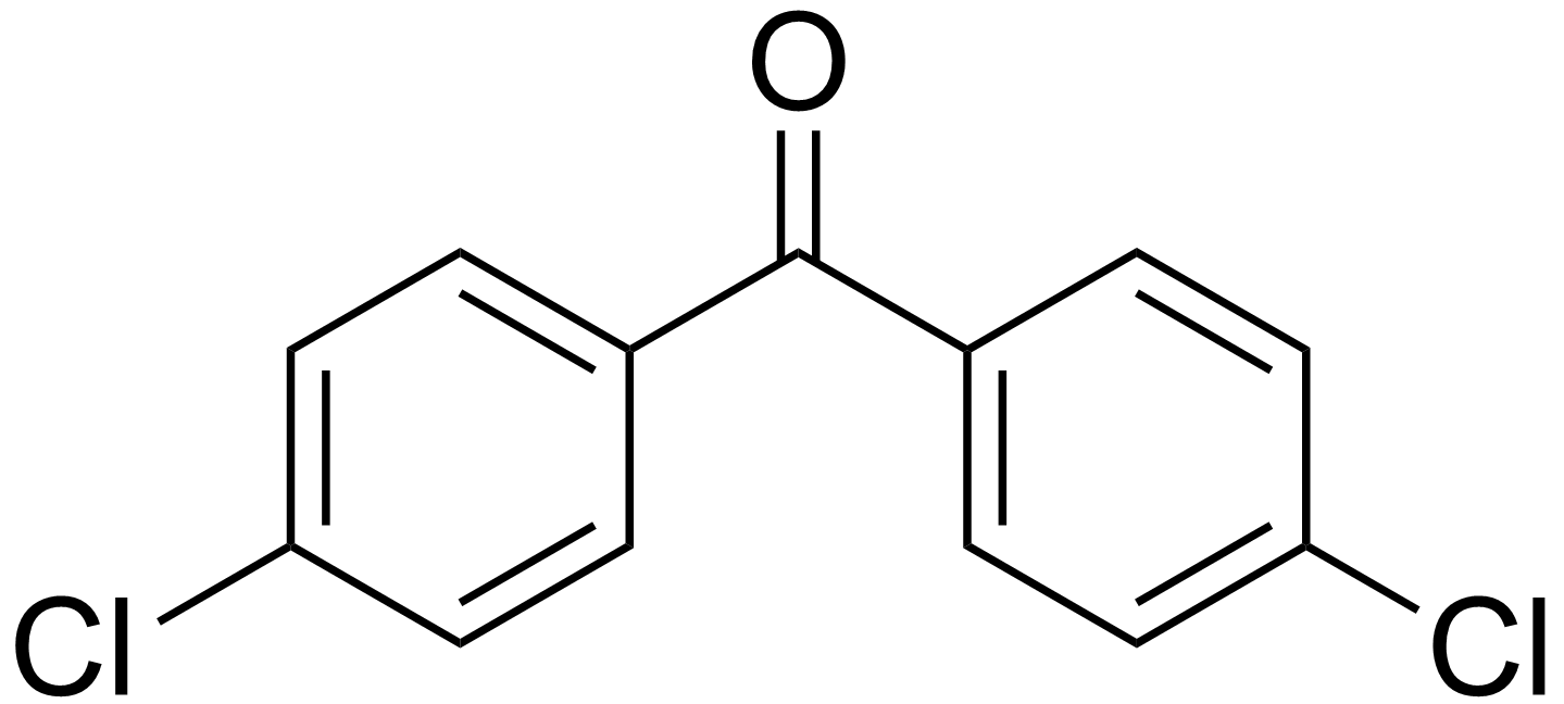 Chemical structure of 4,4'-dichlorobenzophenone